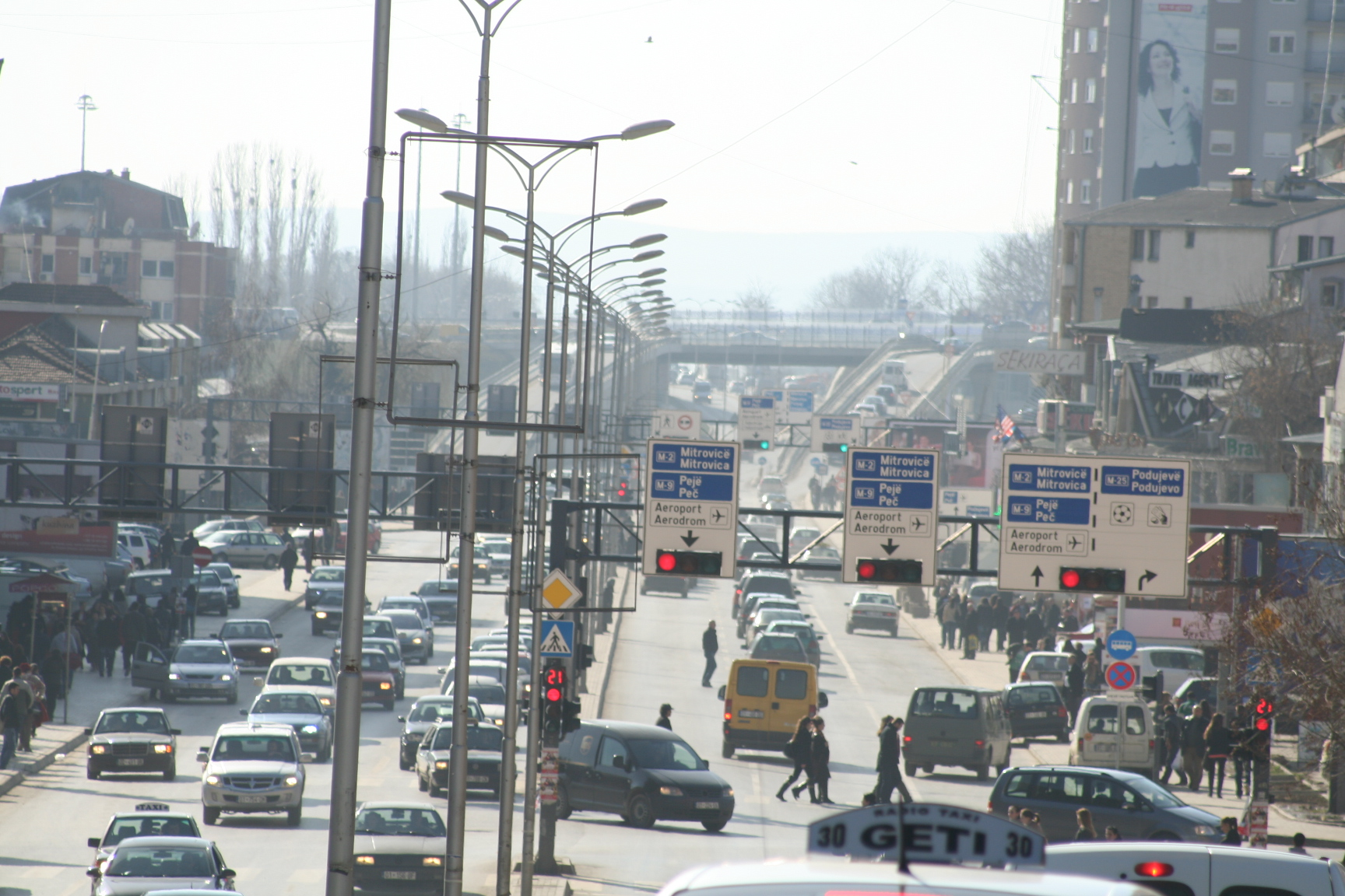 Prishtina in the afternoon !